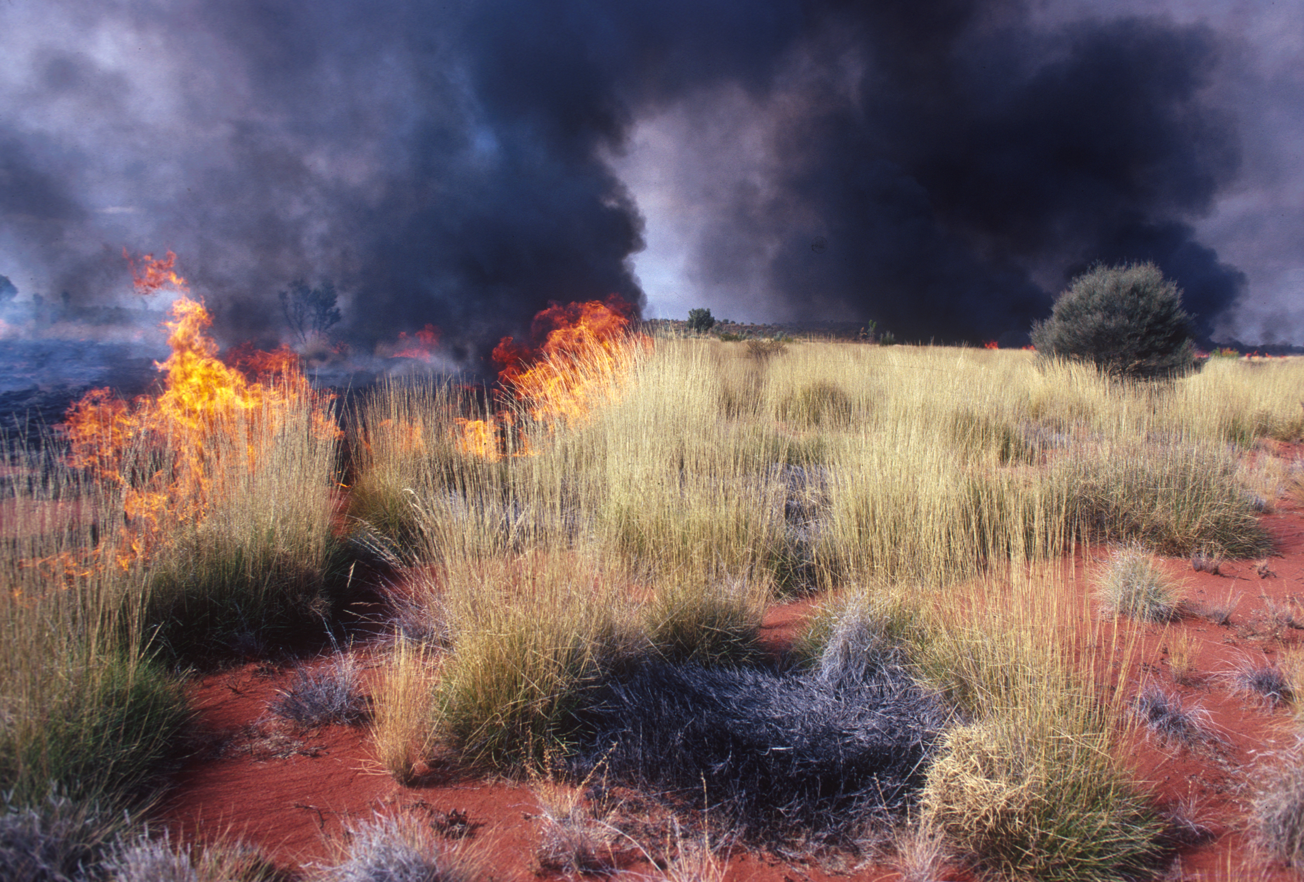 A grass fire burns through an open area. September 1983. Photo credit: Malcolm Paterson